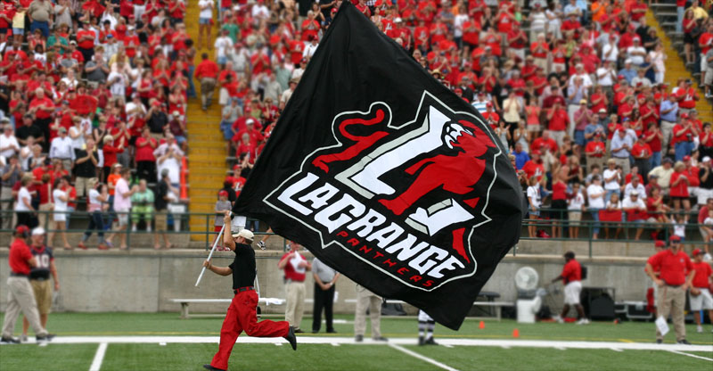 LaGrange Panthers Flag